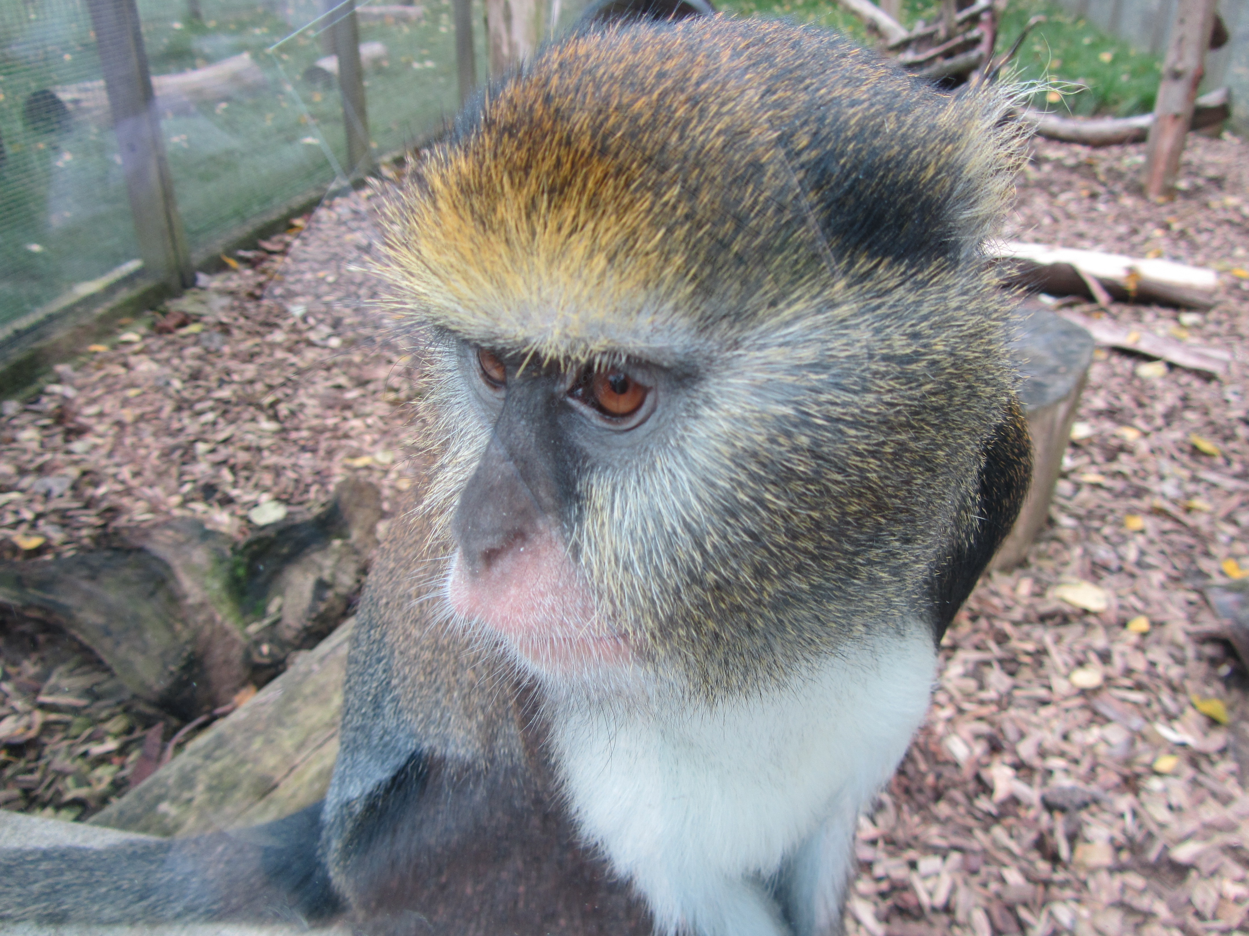 Cercopithecus campbelli lowei (according to Grubb et al. (2003)); Cercopithecus lowei (according to Kingdon (2001) and Groves (2001, 2005) (see IUCN: Cercopithecus campbelli - Taxonomic Notes)